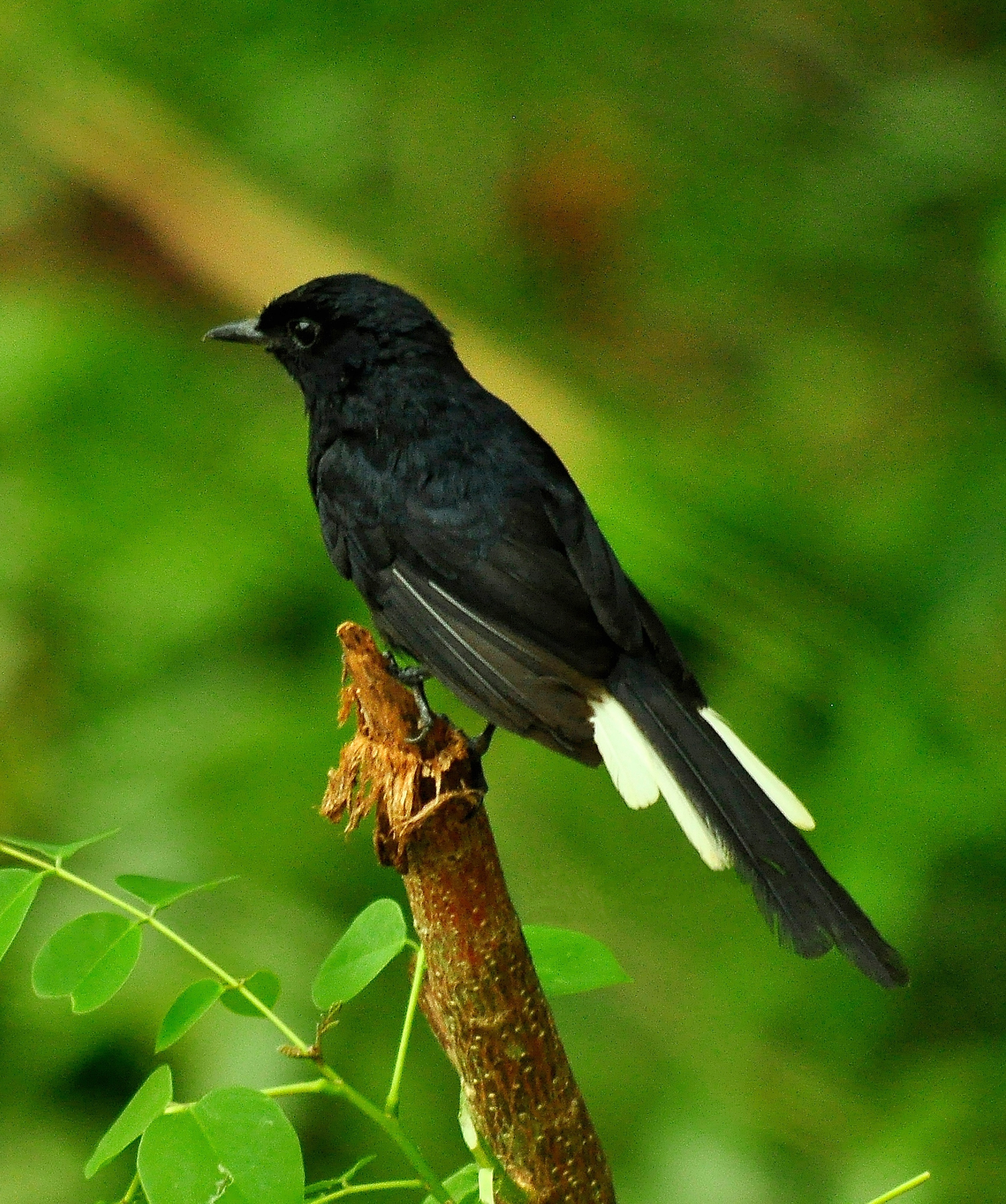 In Sitio Apan, Bgy. Sicsican, Puerto Princesa City, Palawan, Philippines